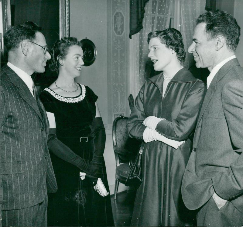 Reception for Nobel Prizes. Hans Krebs with wife Margaret, Mary Soames and Fritz